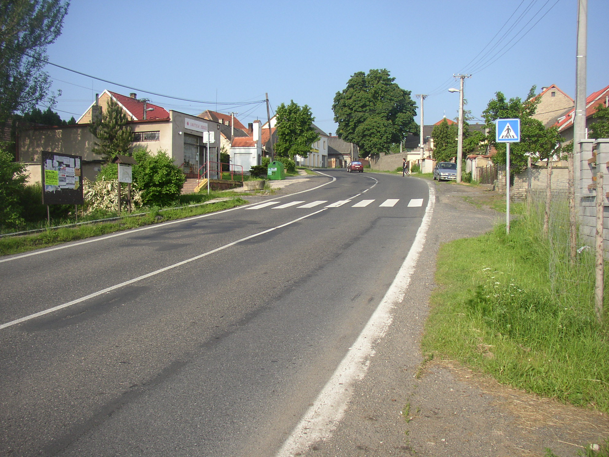 Road I/16 in middle of Hvězda, part of Malíkovice municipality, Kladno District, Czech Republic.